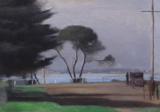 Autumn Morning (Early Morning, Beaumaris), painting, oil on board, 44.5 x 64.5 cm, by Clarice Beckett